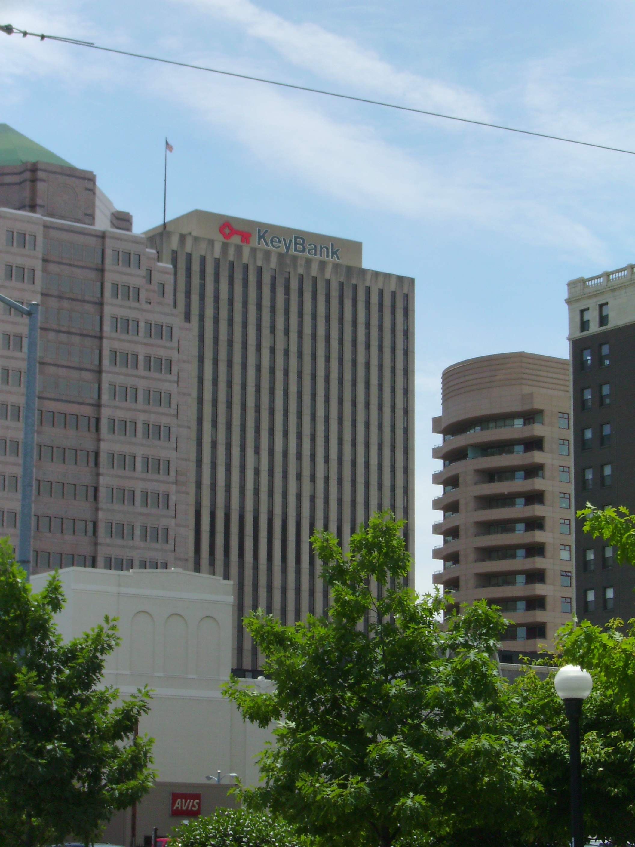 KeyBank Tower located in downtown Dayton, Ohio. Photographed myself, not taken from any other sources.